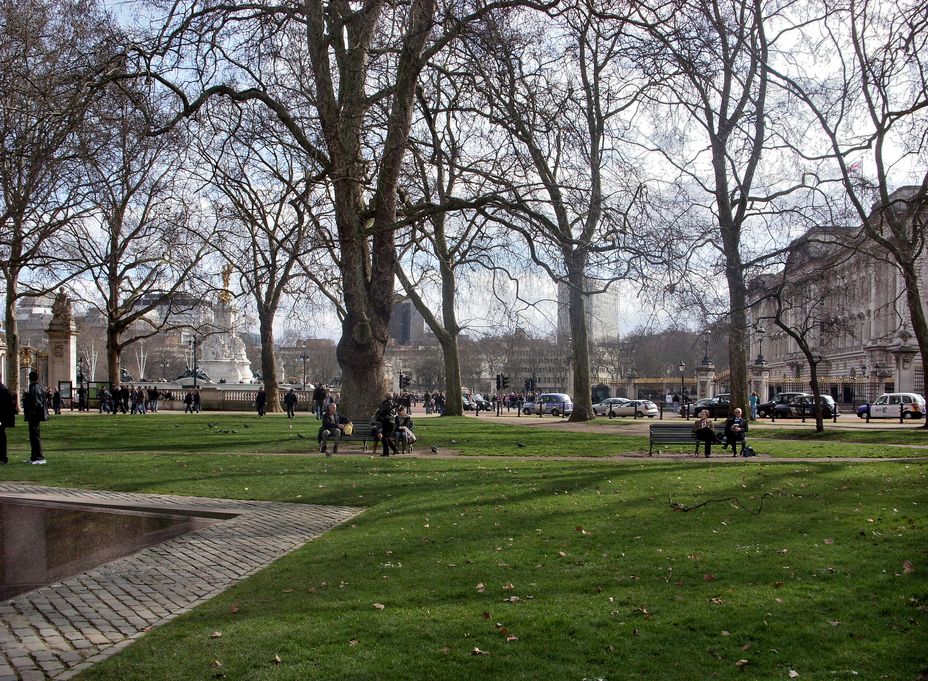 View through the London Green Park towards Buckingham Palace and the borough City of Westminster